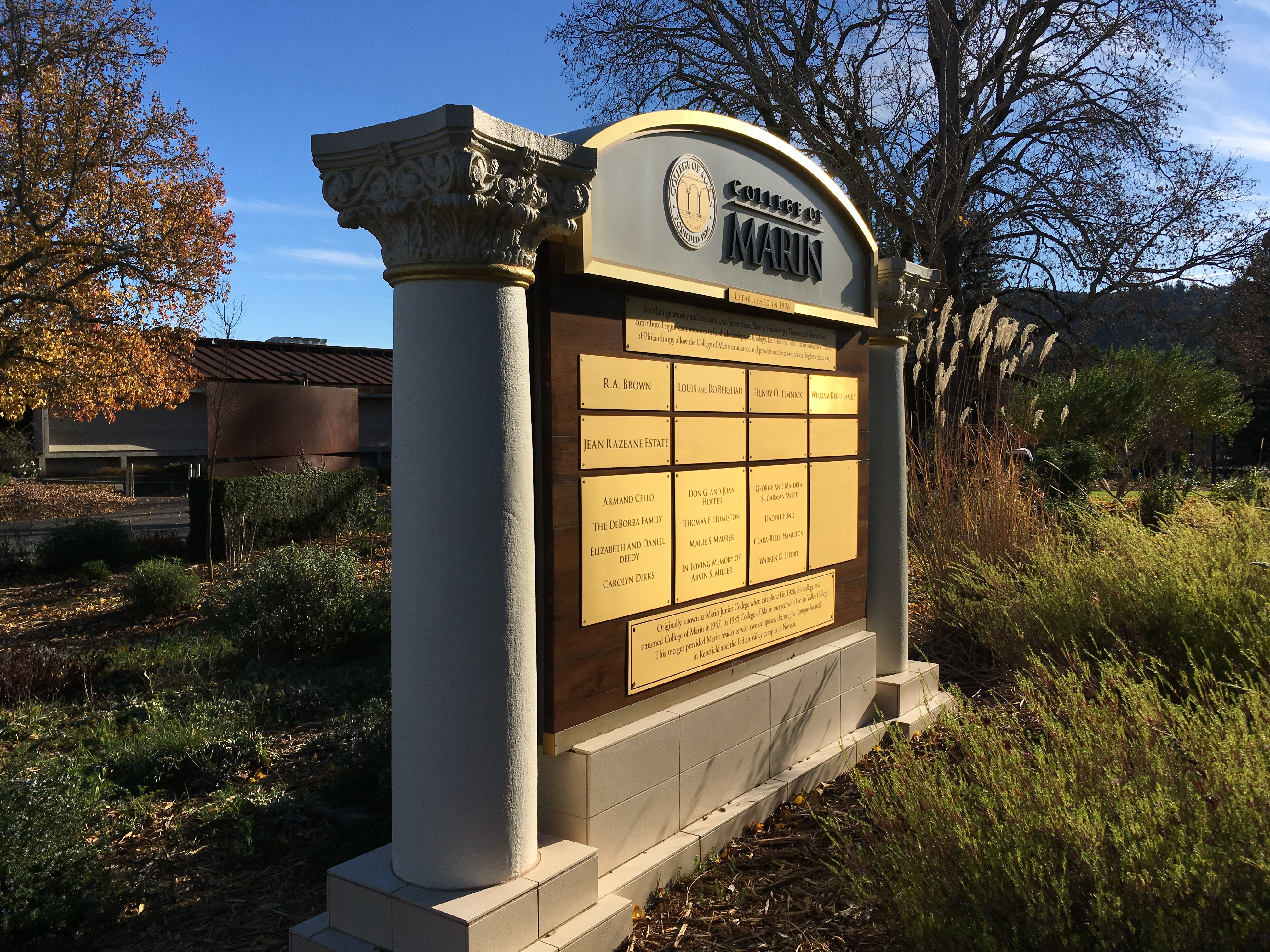 Photo of College of Marin's Kentfield campus sign